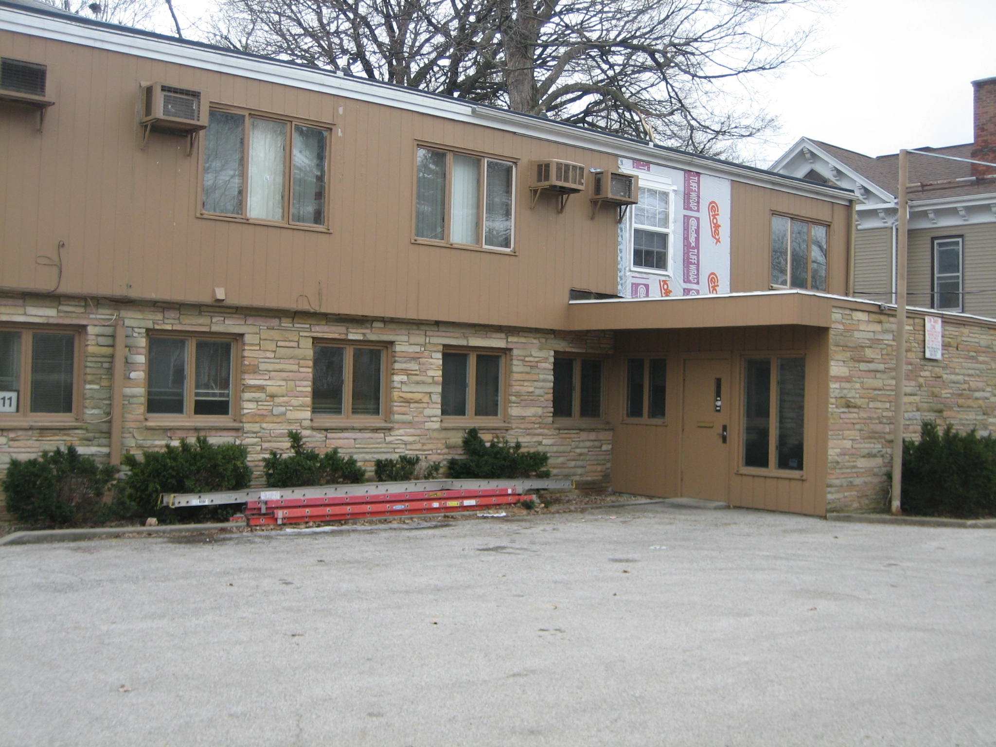 An apartment building at 511 East Grove Street, at the southeast corner with South Evans Street. Non-contributing Property, East Grove Street Historic District, Bloomington, Illinois. National Register of Historic Places.